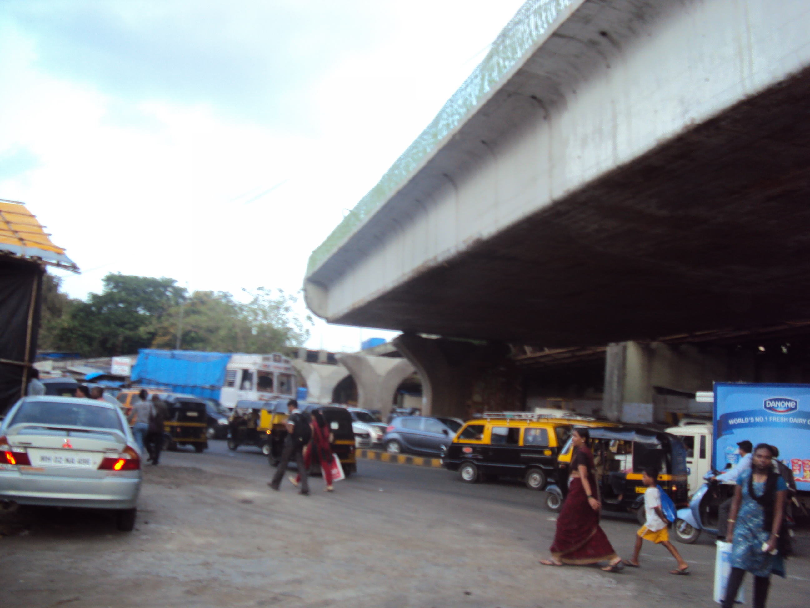 Chembur Santracruz link road under construction in Amar Mahal